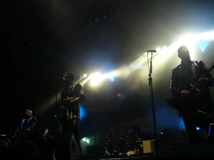 Oomph!